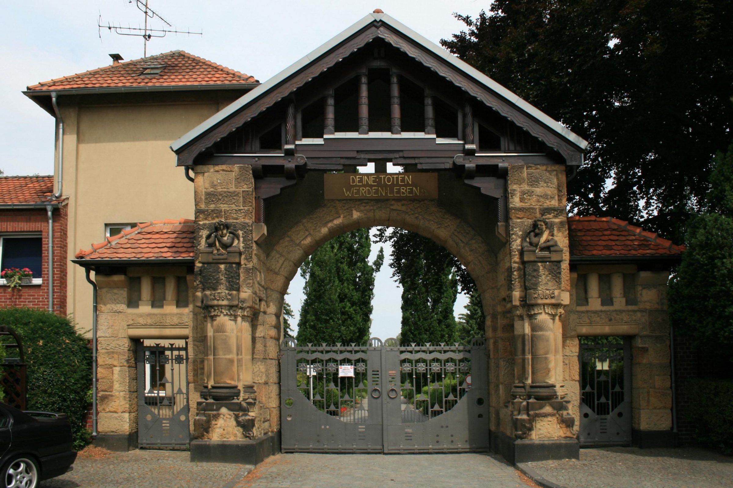 Cultural heritage monument No. N 017 in MönchengladbachThis is a photograph of an architectural monument. 017